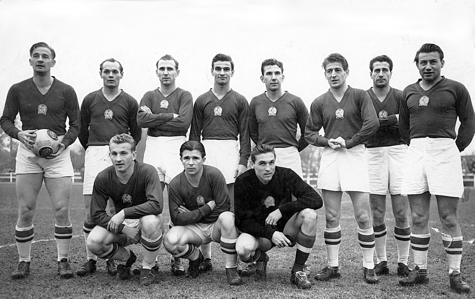 The Golden Team in 1953front row: Mihály Lantos, Ferenc Puskás, Gyula Grosicsback row: Gyula Lóránt, Jenő Buzánszky, Nándor Hidegkuti, Sándor Kocsis, József Zakariás, Zoltán Czibor, József Bozsik, László Budai